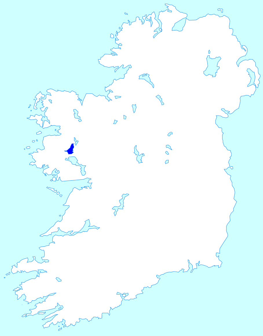 Location map of the Lough Mask in Ireland